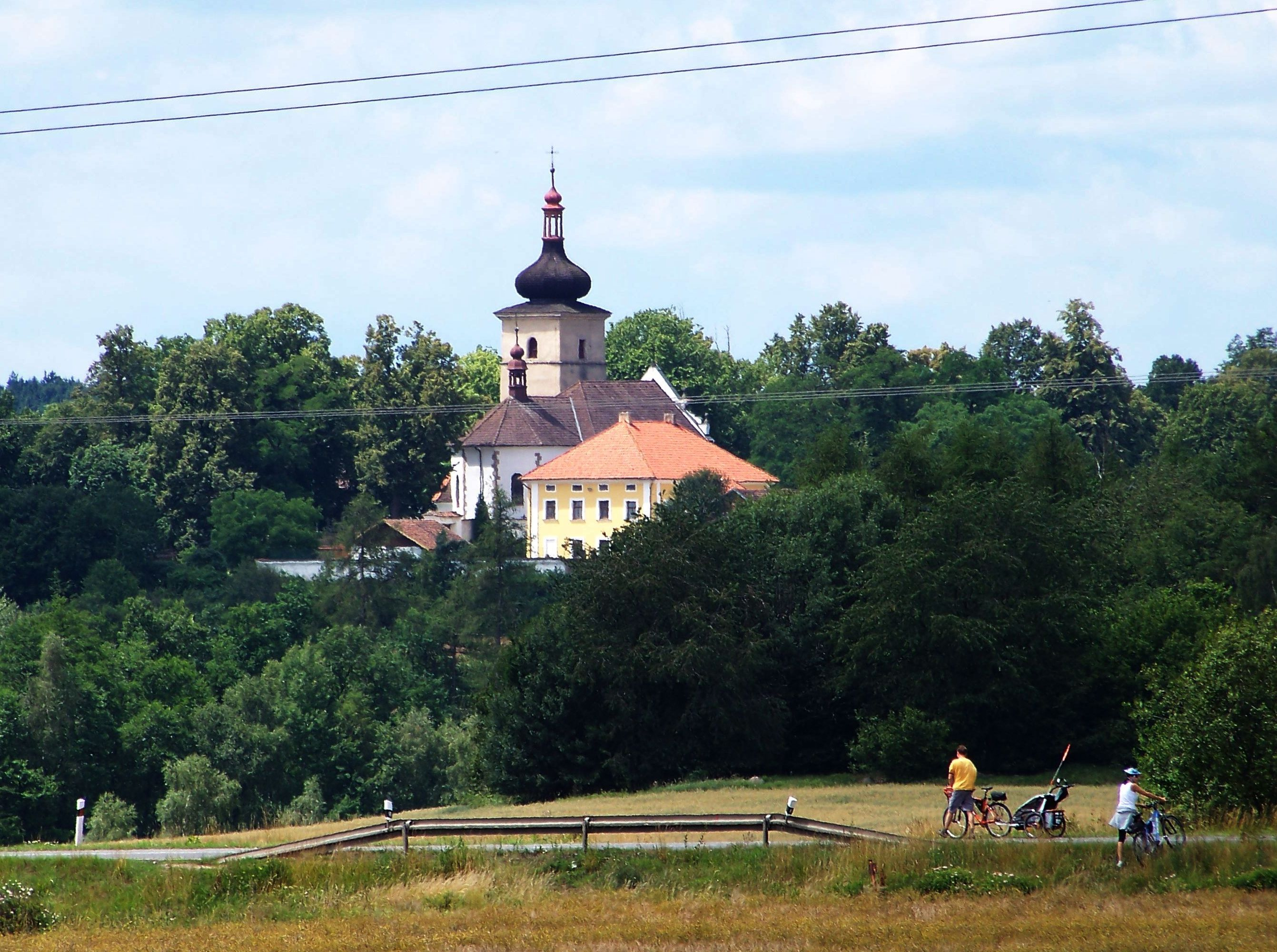 Milín-Slivice, Příbram District, Central Bohemian Region, the Czech Republic. Saint Peter Church with the rectory, seen from Buk.